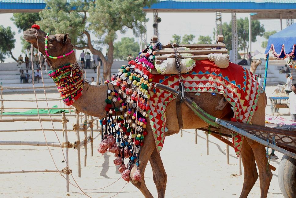 Dressed up camel Pushkar festival Rajasthan India